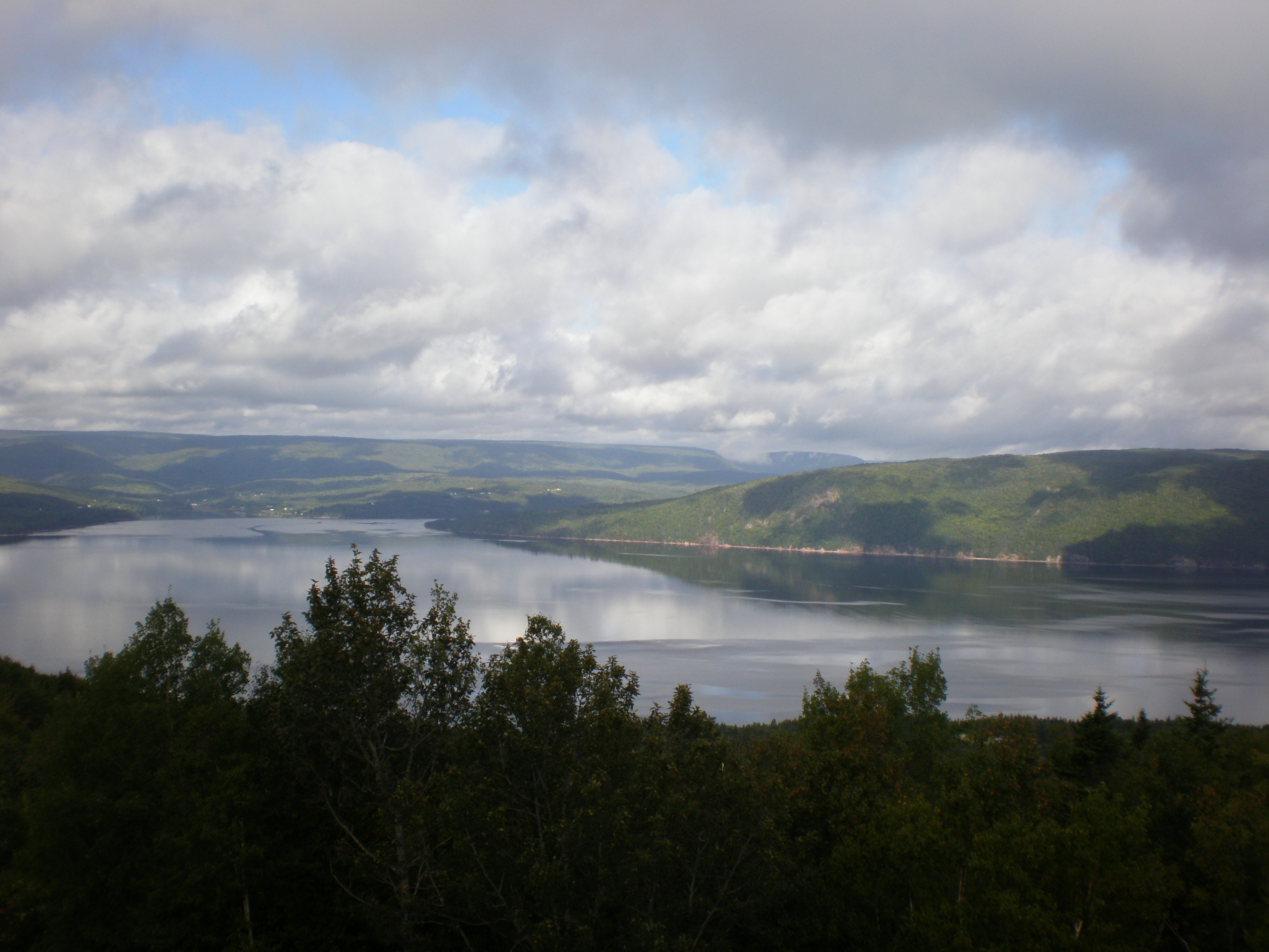 St.Anne's look-off near Baddeck, Cape Breton, Canada